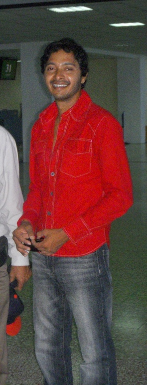 Shreyas Talpade in 2007.